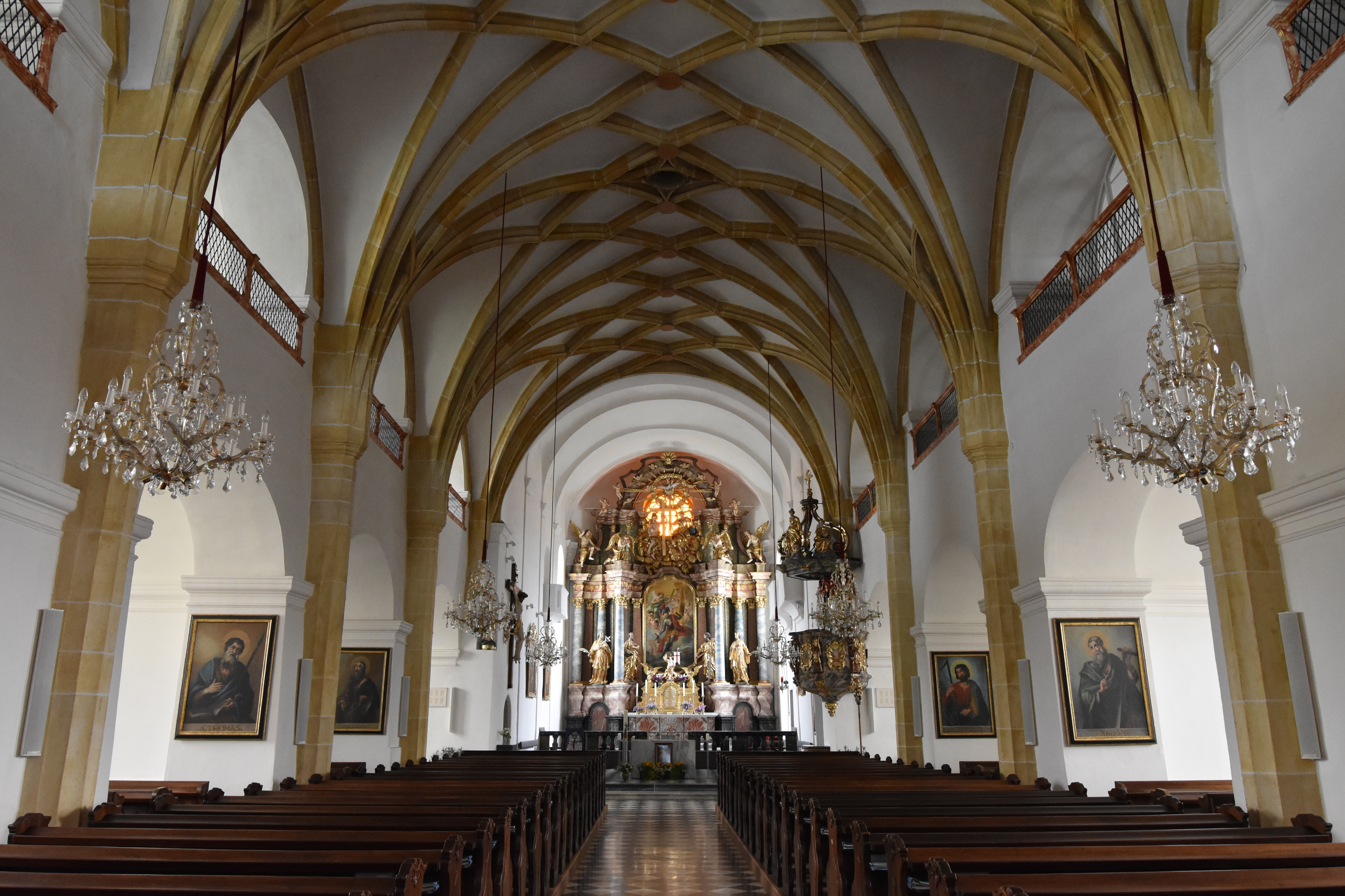 Church Groß Sankt Florian - Interior